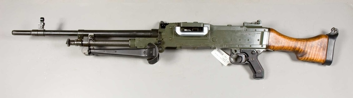 The Kulspruta 58 (Ksp 58) machine gun, chambered in 6,5 × 55 mm, is a Swedish version of the FN MAG. In the early 1970's the barrel was replaced with one chambered for 7,62 × 51 mm NATO. Photo from the Swedish Army Museum collections.